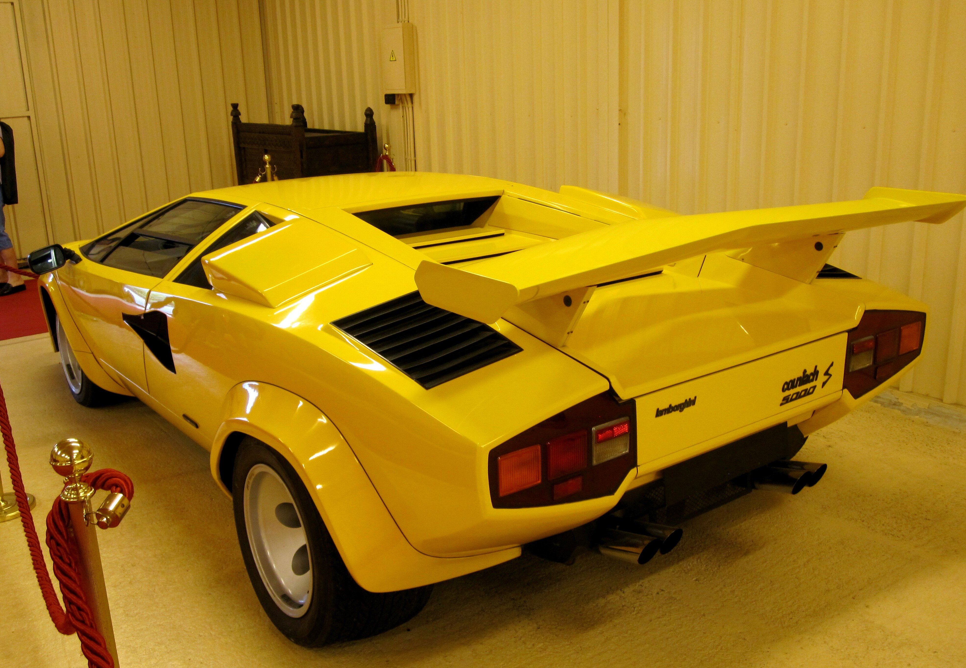 Lamborghini Countach 5000 S